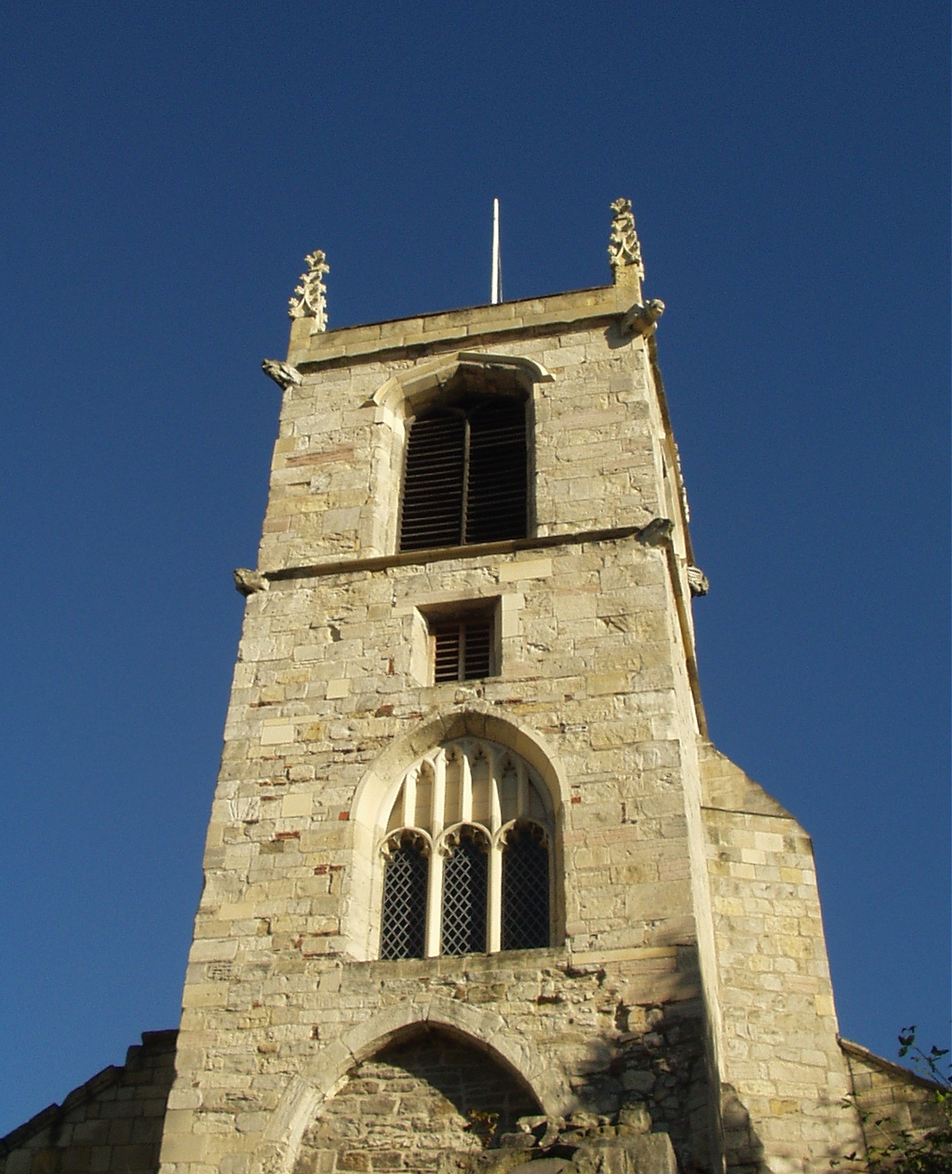 York